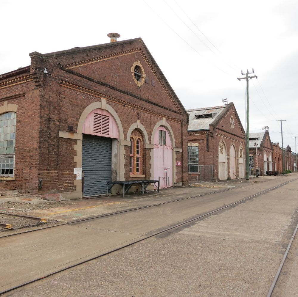 View along the Traverser, looking east (2016)